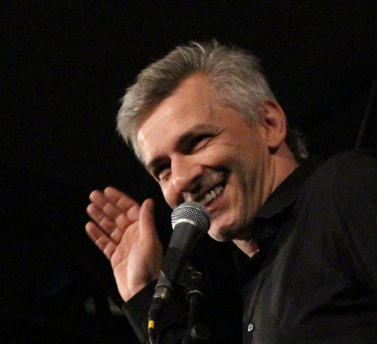 Róbert Alföldi, Hungarian Actor